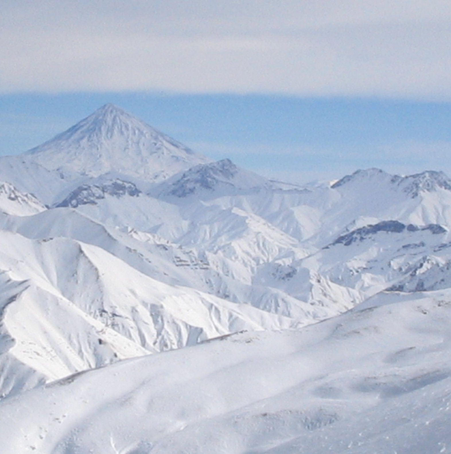 Damavand under clouds seen from Dizin